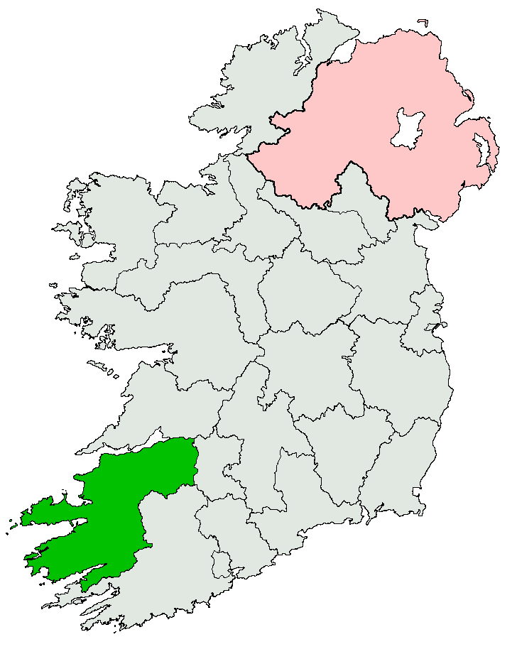 Map depicting the former Irish electoral constituency of Kerry-Limerick West, created under the Government of Ireland Act 1920 and abolished under the Electoral Act of 1923.